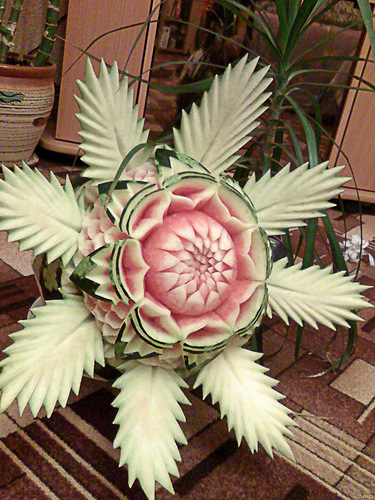 Watermelon carving